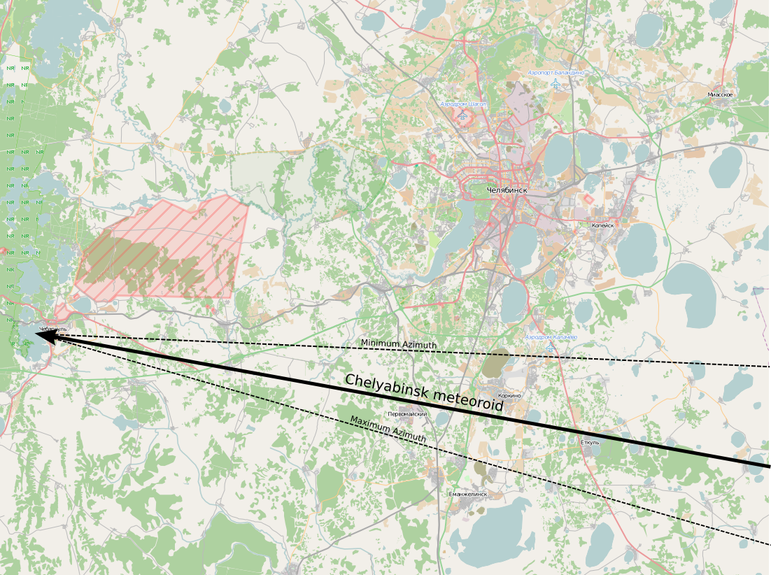 Trajectory of Chelyabinsk meteoroid which fell into the lake Chebarkul. Source: Zuluaga, J.I. and Ferrin, I. "A preliminary reconstruction of the orbit of the Chelyabinsk Meteoroid.", ArXiv e-prints, arxiv:1302.5377 February 2013.